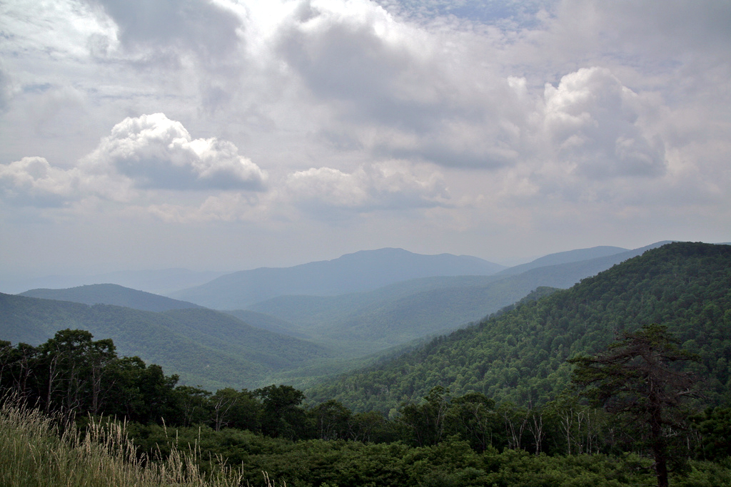 View from Pinnacles Overlook, June 2007. Photo by W. Grotophorst